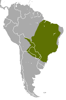 Brazilian Lesser Long-nosed Armadillo (Dasypus septemcinctus) range